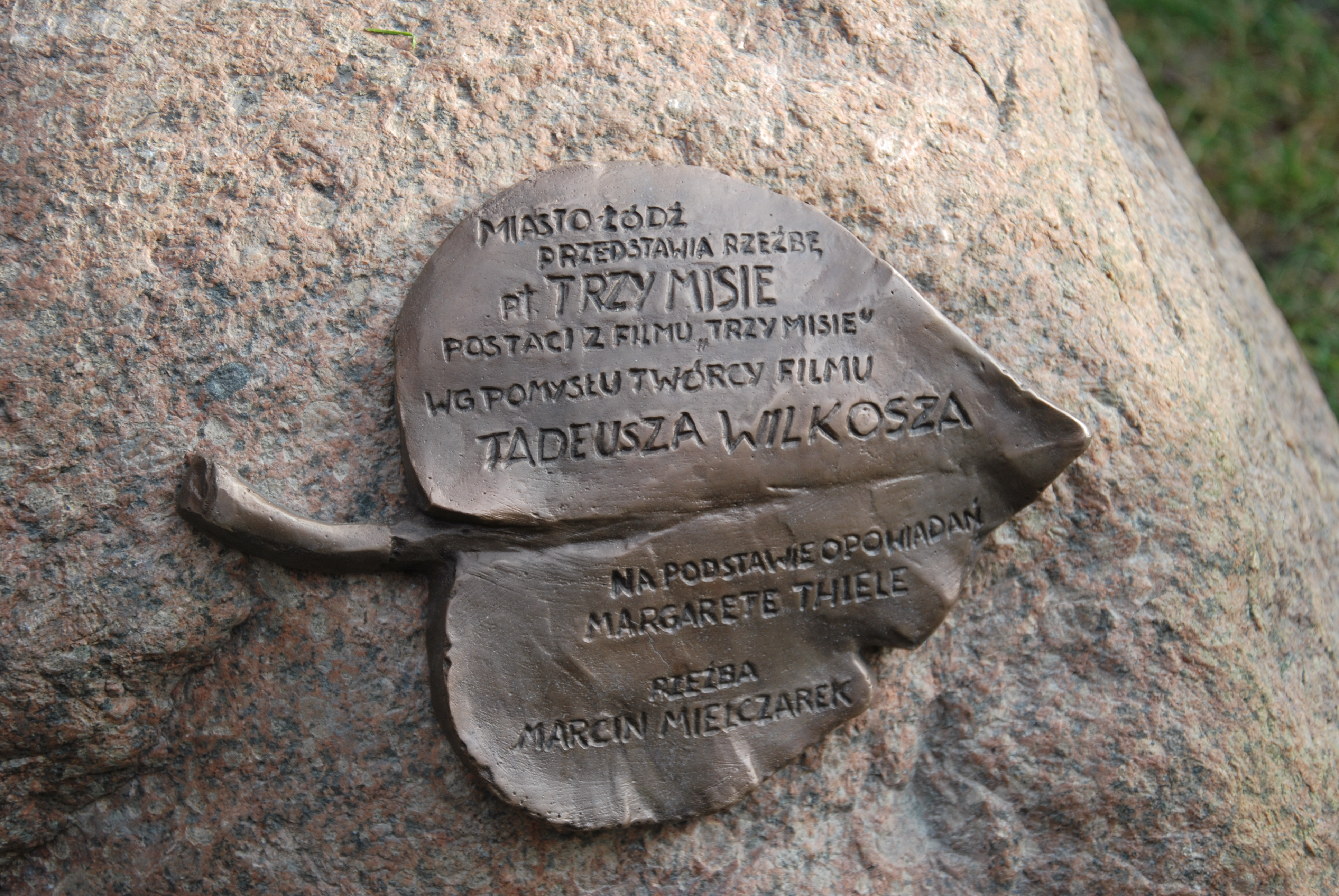 Three Bears Sculpture, Łódź, detail